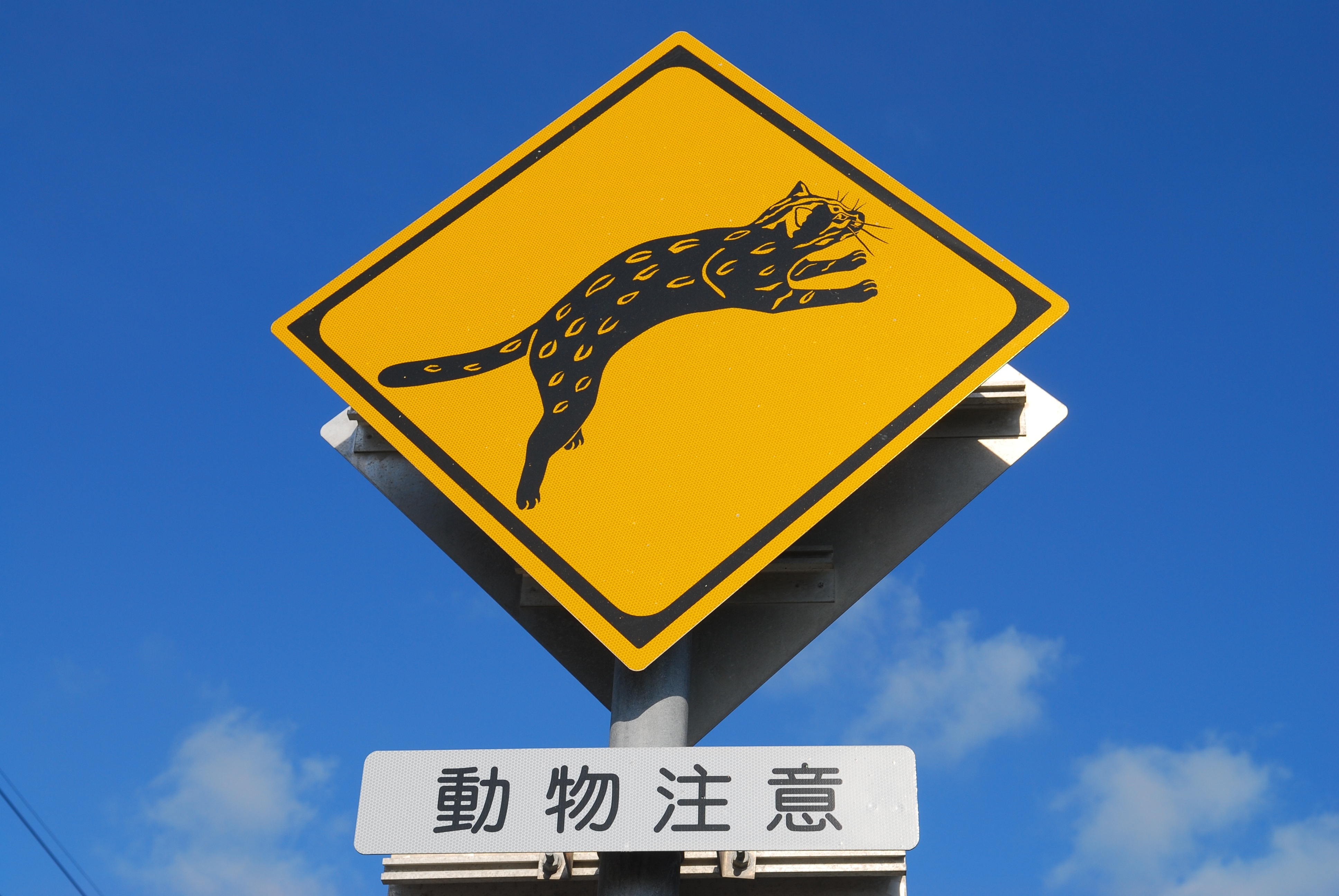 warning signs for Iriomote cat at Iriomote island, Okinawa, Japan.